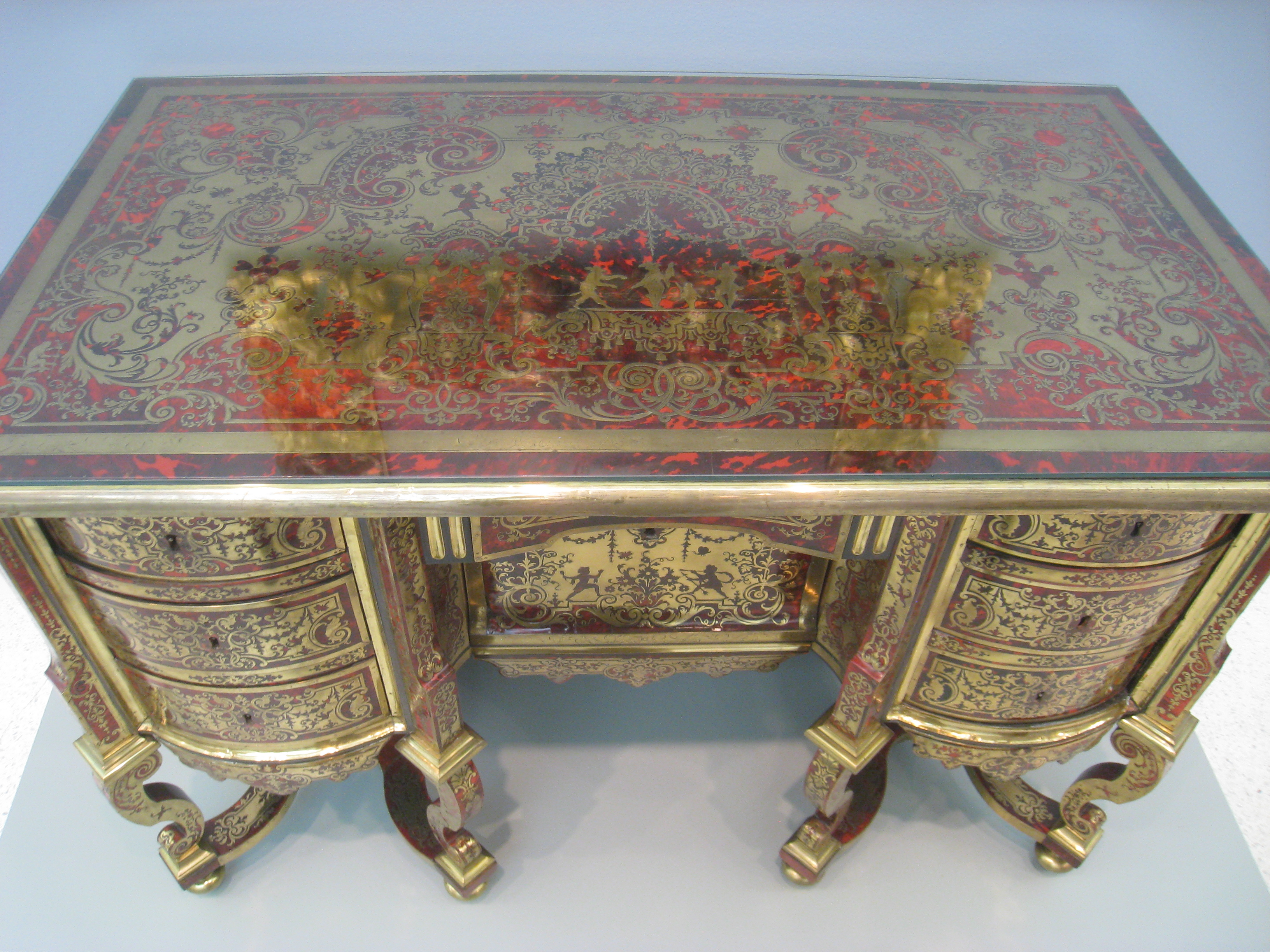 Andre-Charles Boulle (French, 1642-1732) or circle: Mazarin desk, c. 1690-1700, exhibited in the Carnegie Museum of Art, Pittsburgh, Pennsylvania, USA.